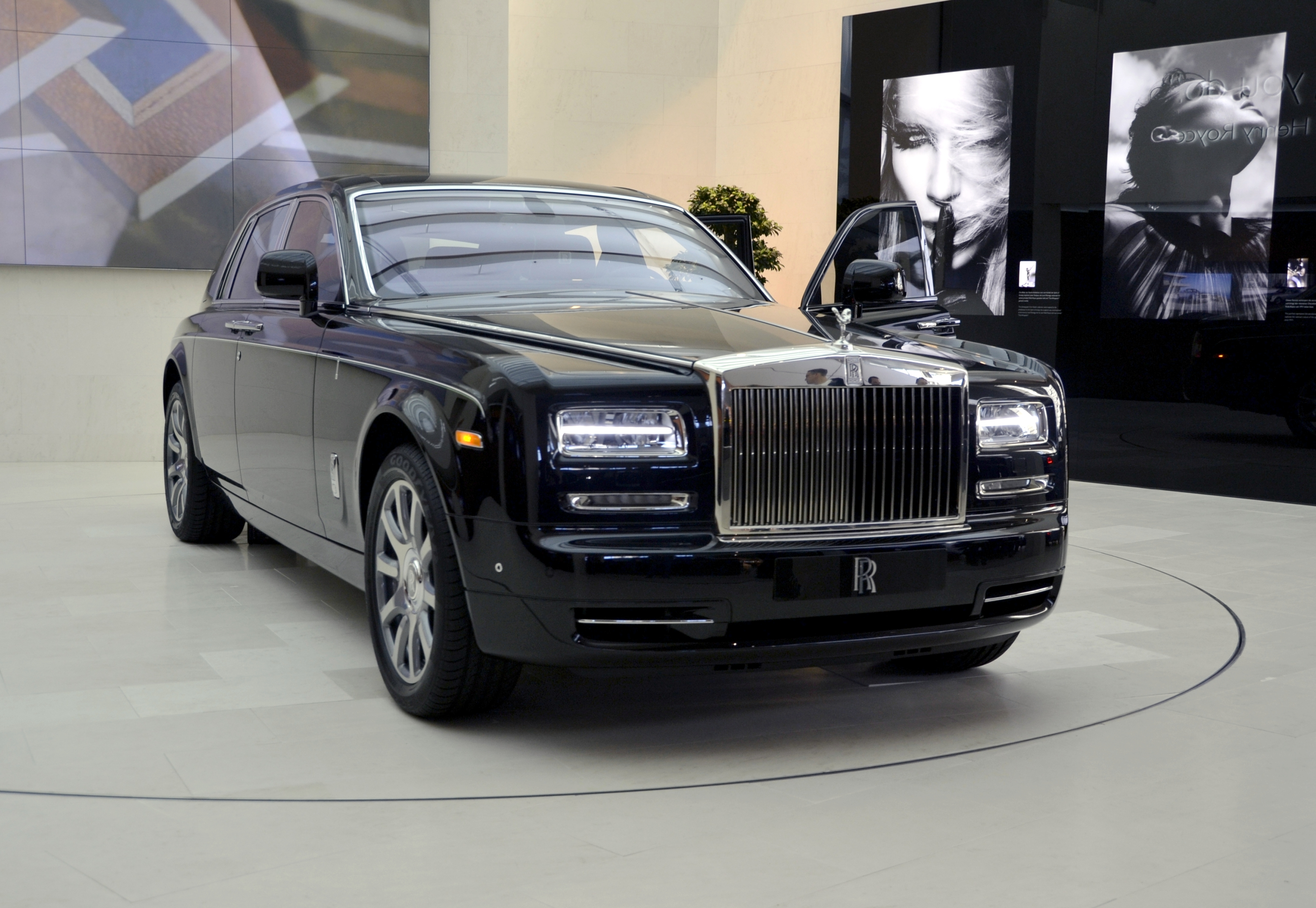 Rolls-Royce Phantom Series II in Munich.